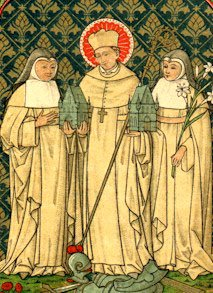 St. Gilbert of Sempringham with two Gilbertine nuns